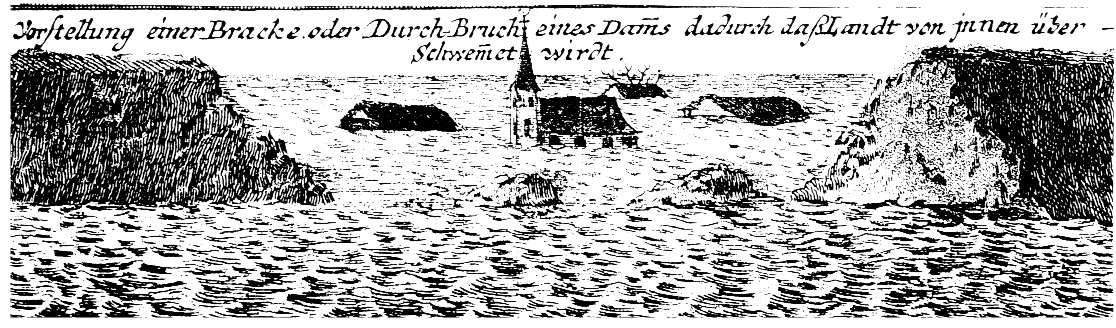 Johann Baptist Homann, dams broken by sea, winter 1717-1718